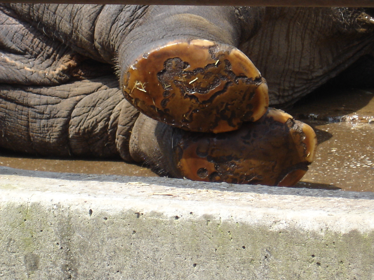 The bottoms of an elephant's feet